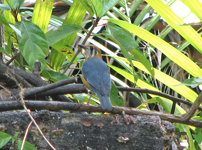 Orange Headed Thrush